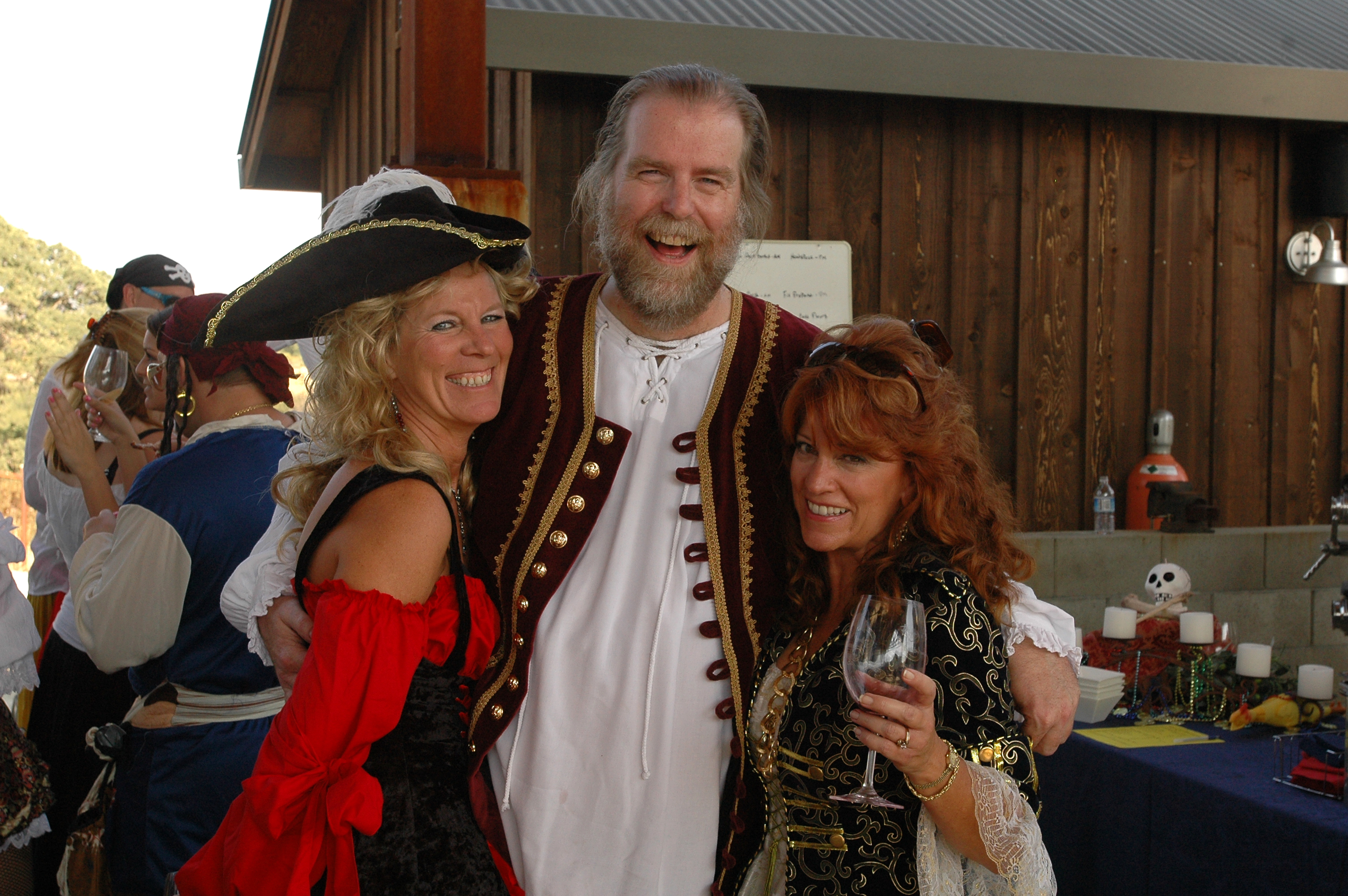 California winery owner Jeff Stai (El Jefe) in middle of Twisted Oak.